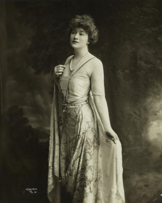 american stage & film actress Charlotte Walker in the Jean Archibald's play Call the Doctor, Broadway (1920) - publicity still (cropped)